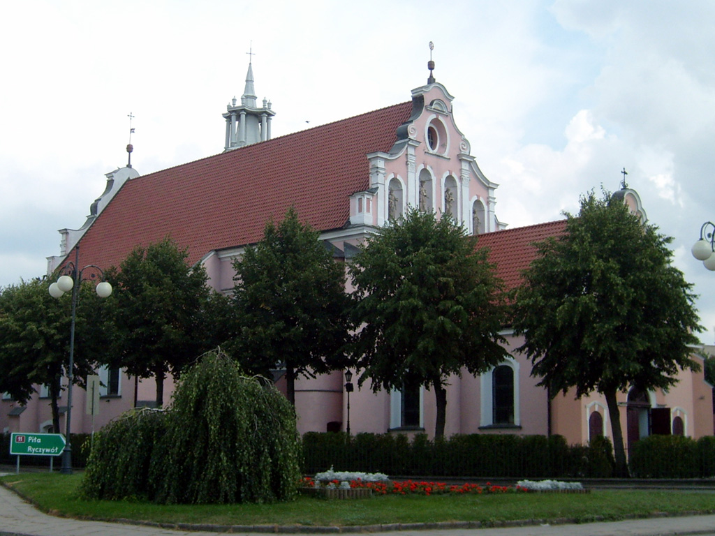 The church in Chodzież, Poland